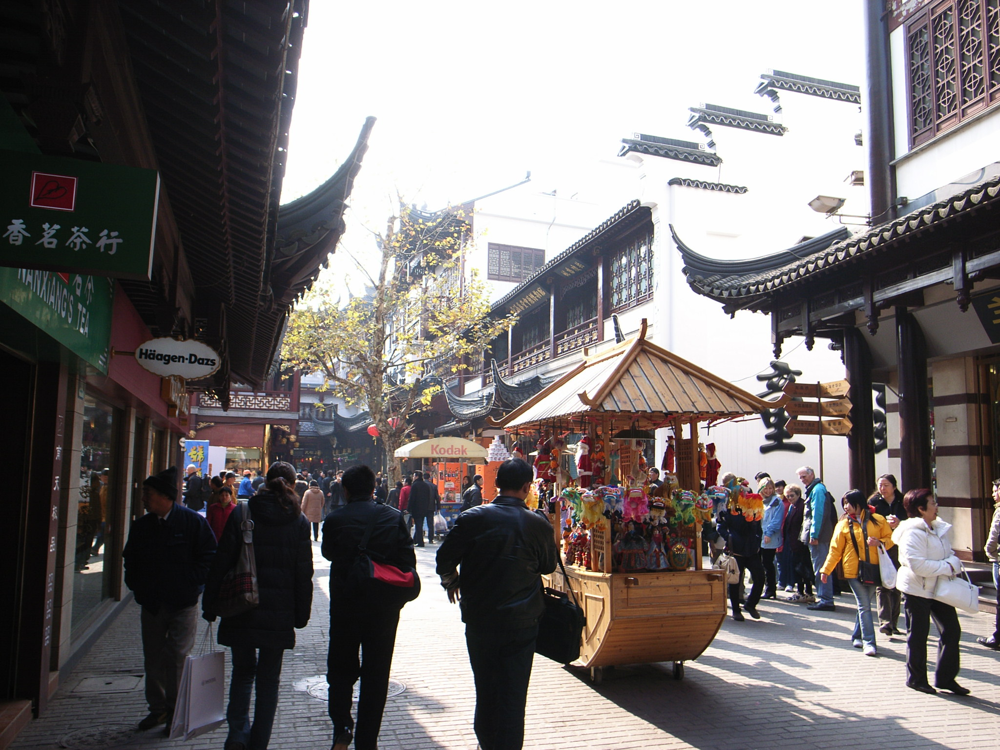 The Chenghuang Miao (City God Temple) in Shanghai